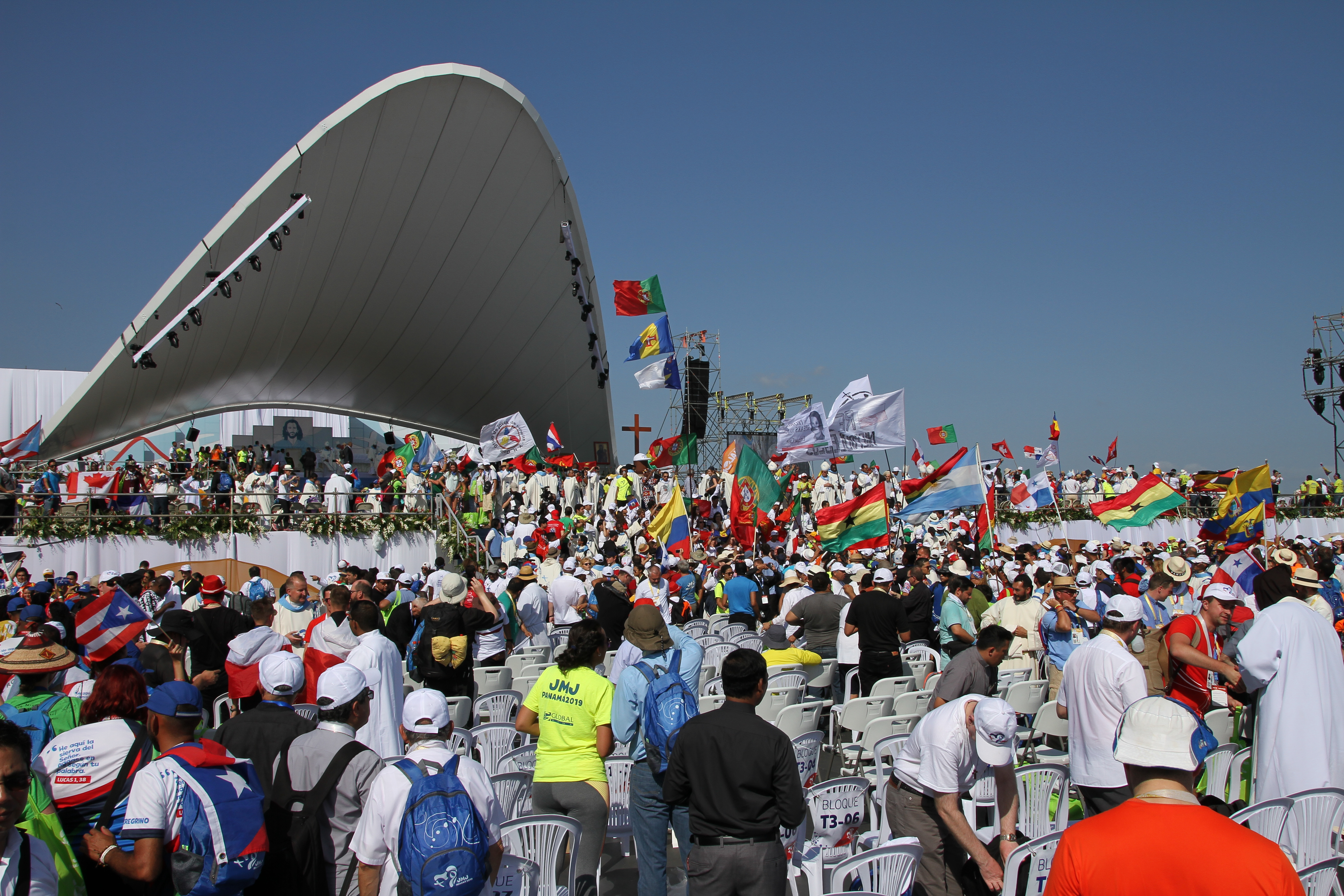 Concluding Mass